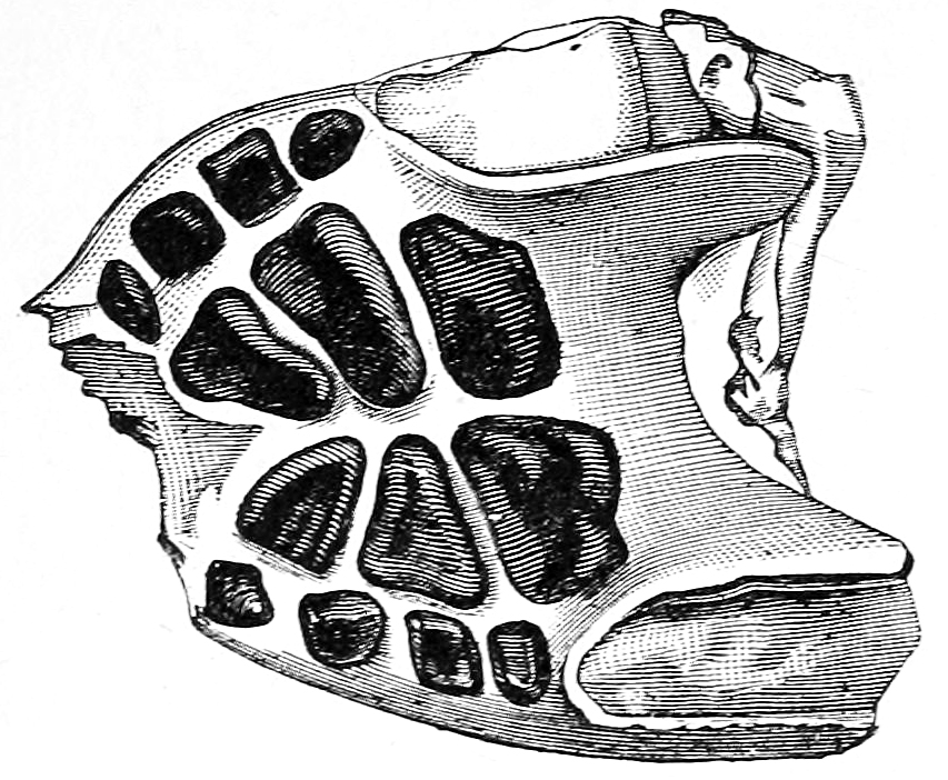 Original figure caption: “Under surface of the upper jaw and palate of Placodus gigas. Muschelkalk, Germany.”